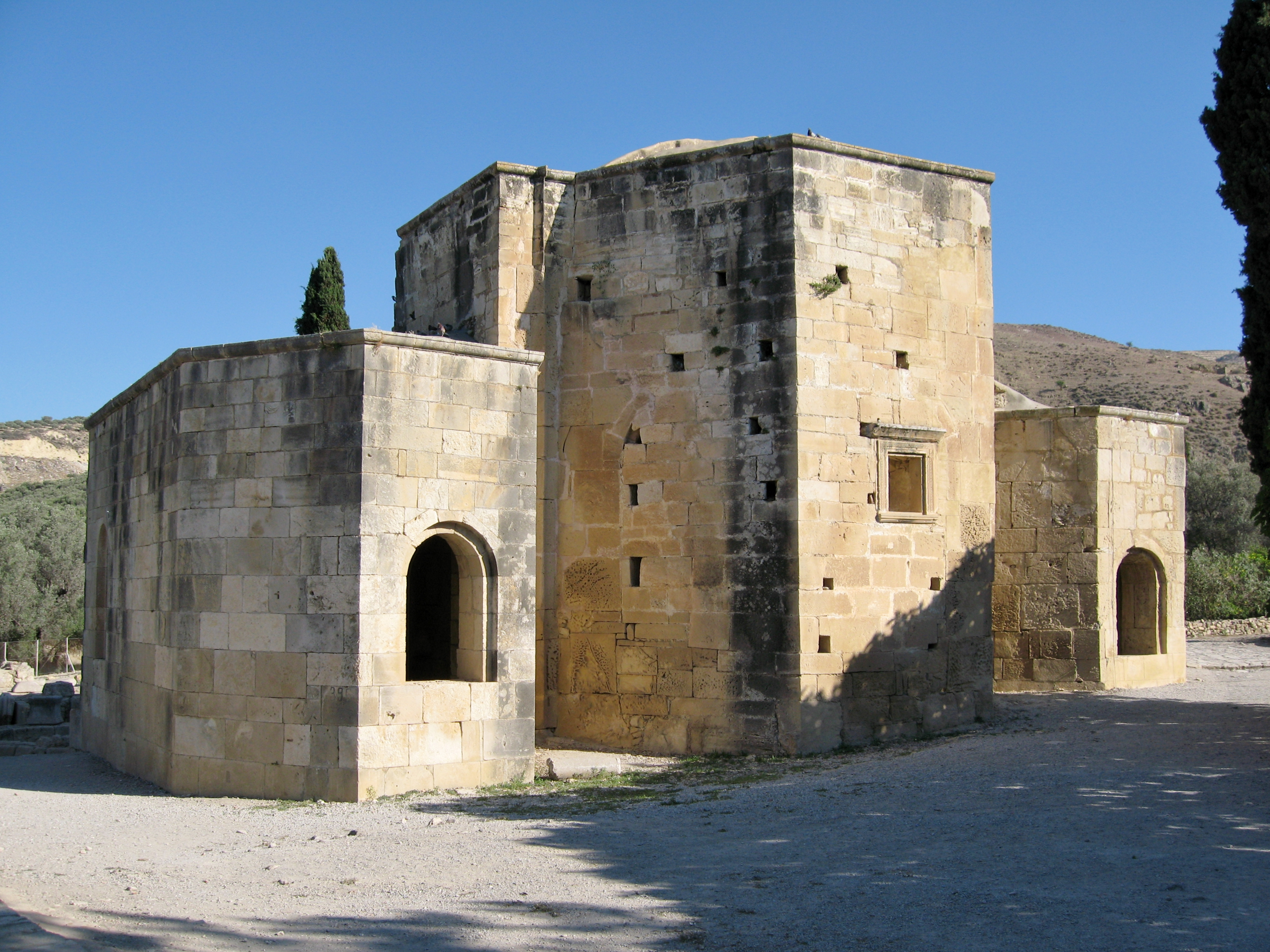 Gortyn, Crete, Greece